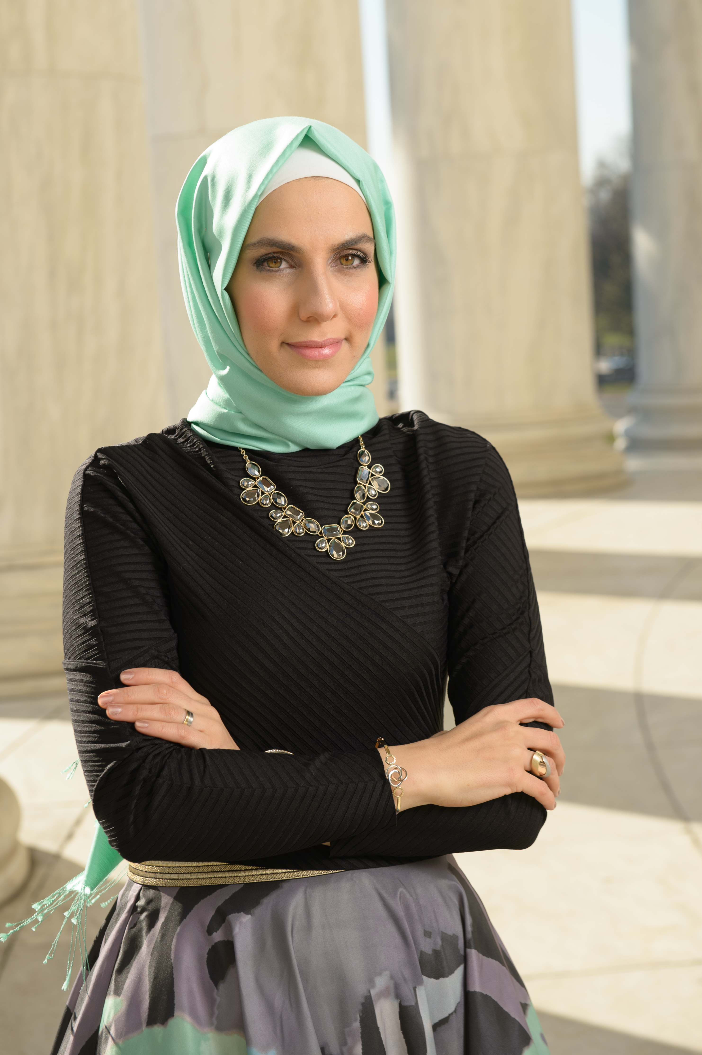 Syrian Director, Samah Safi